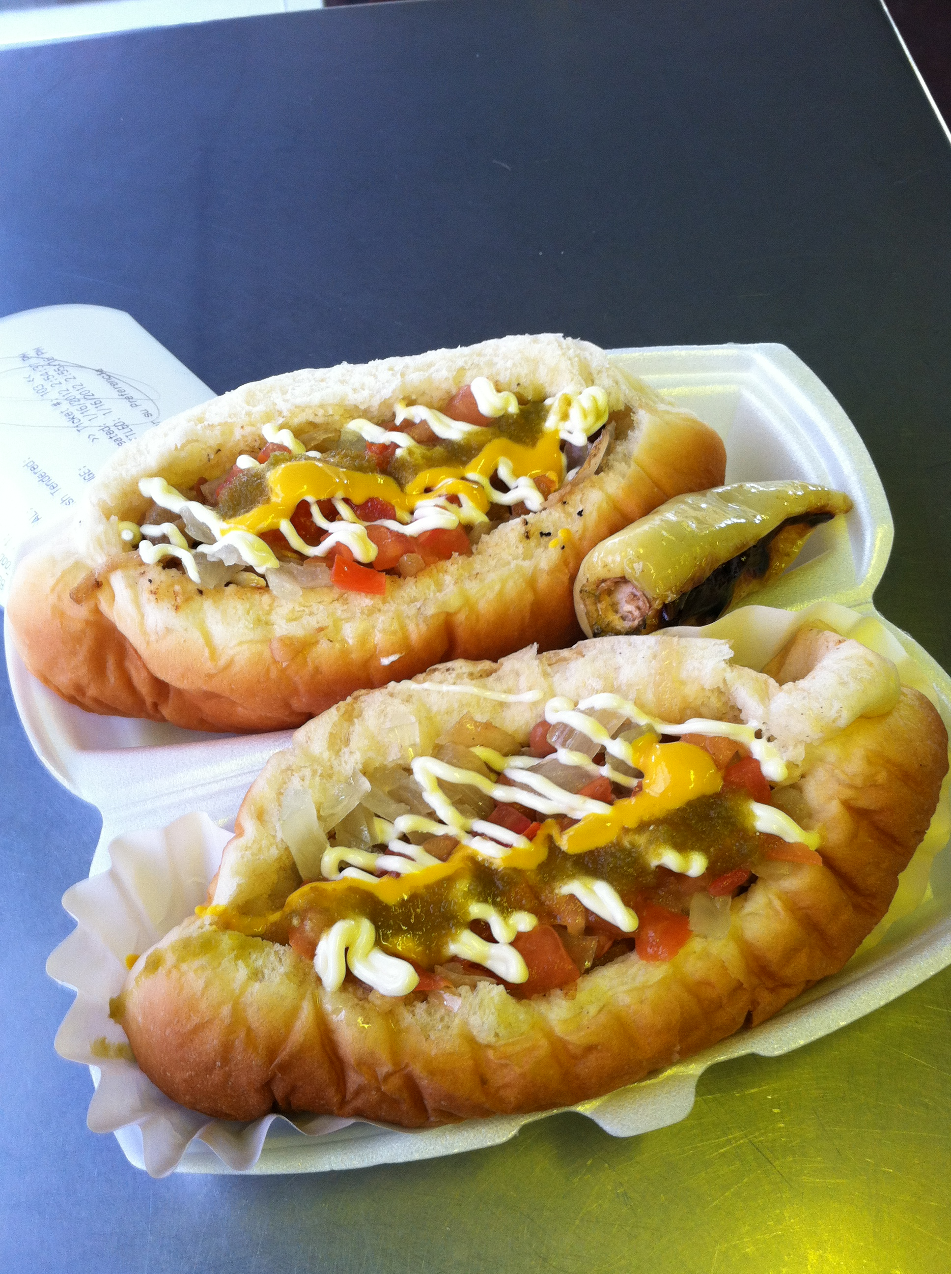 Two Sonoran dogs from Guero Canelo, Tucson, AZ.